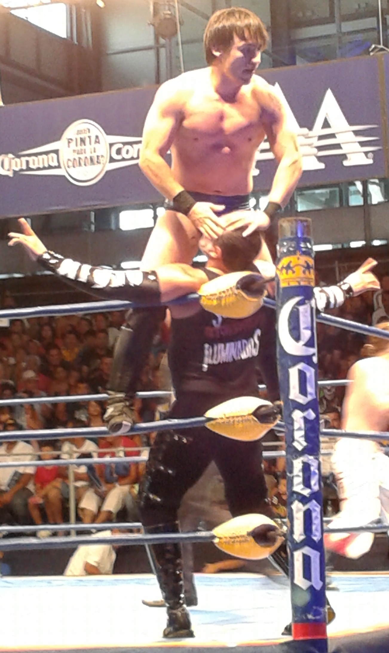 Daga vs Dark Espiritu during the 2012 ¿Quién Pinta Para La Corona? held by Asistencia Asesoría y Administración on August 26, 2012 at Nave Lewis of Fundidora park in Monterrey, Nuevo León, Mexico.